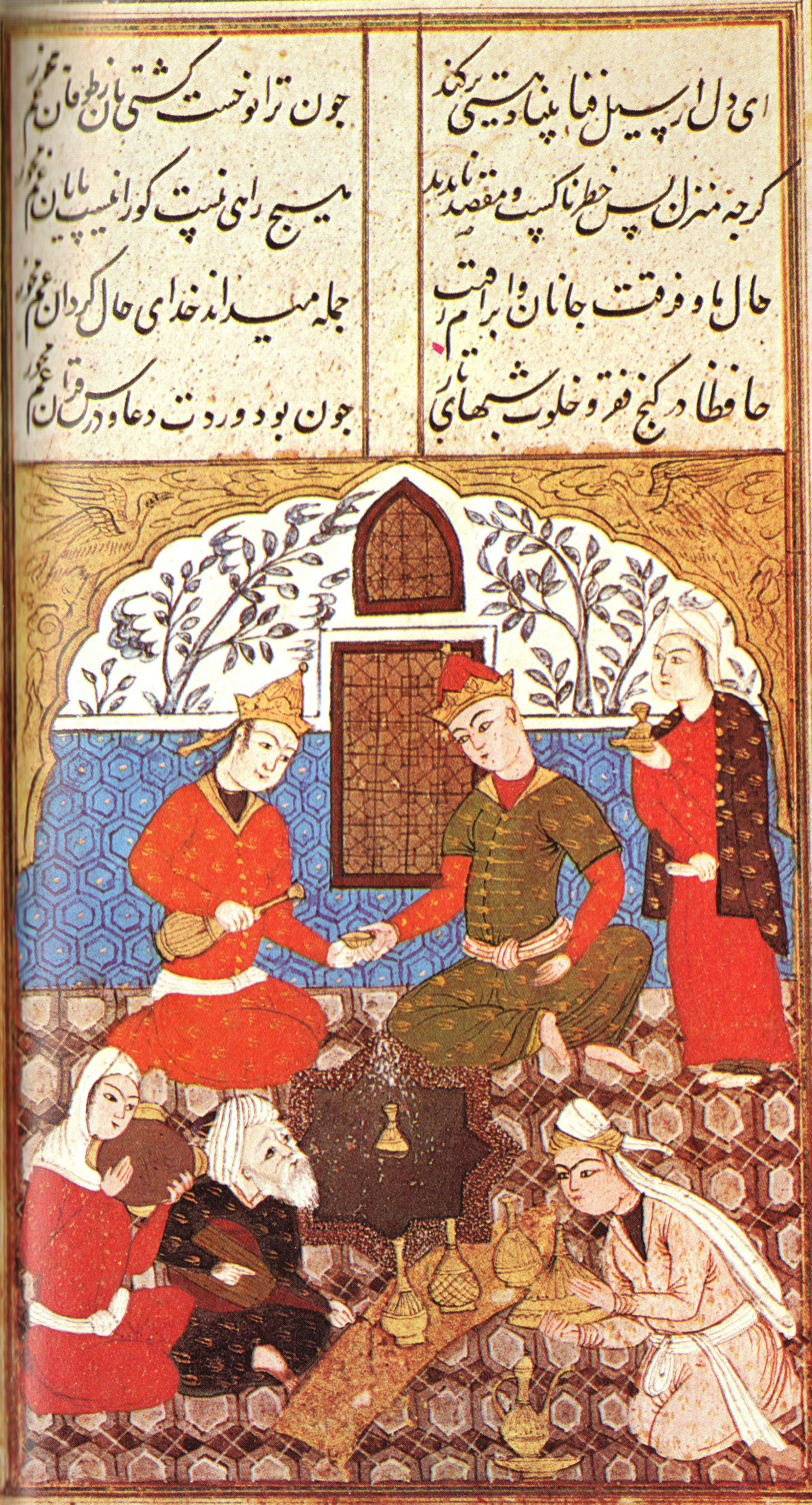 Hafiz Shirazi - Divan. 992 (1584)